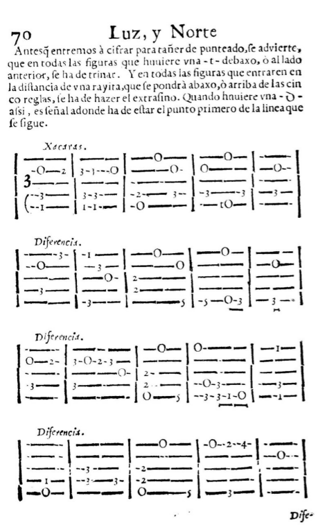 Tabulatures for Xacaras, except from Luz y Norte by Lucas Ruiz de Ribayaz (Pub. Madrid 1677.